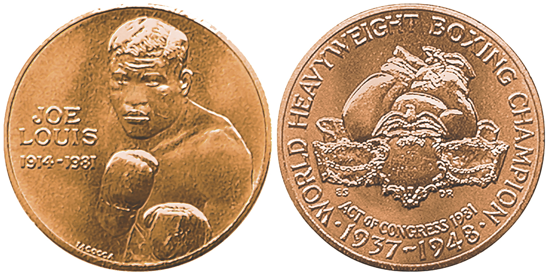 U.S. Congressional Gold Medal for Joe Louis. Original caption states "he obverse of the medal features a portrait of Mr. Louis in a boxing stance with the inscription “JOE LOUIS 1914-1981” appearing in the left field of the medal. The reverse features the belt that Joe Louis won in 1937. The belt consists of a large center buckle with side buckles. On the center buckle is featured the American Eagle and the words “The Ring Championship Belt Won by Joe Louis”. The wording on the two smaller side buckles appearing on the medal cannot be read. In the background above the championship belt is a pair of boxing gloves. “ACT OF CONGRESS 1981” appears below the belt and the border of the reverse is surrounded by the inscription “WORLD HEAVYWEIGHT BOXING CHAMPIONSHIP 1937-1948”."